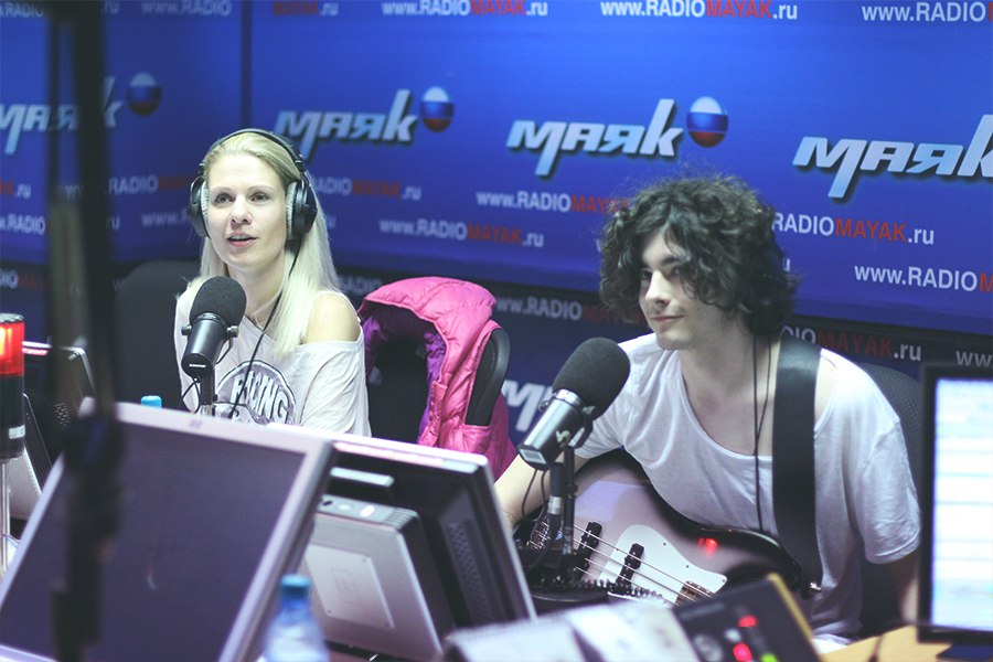 Cruel Tie bassist Ruslan Tikhonov at the Radio Mayak.